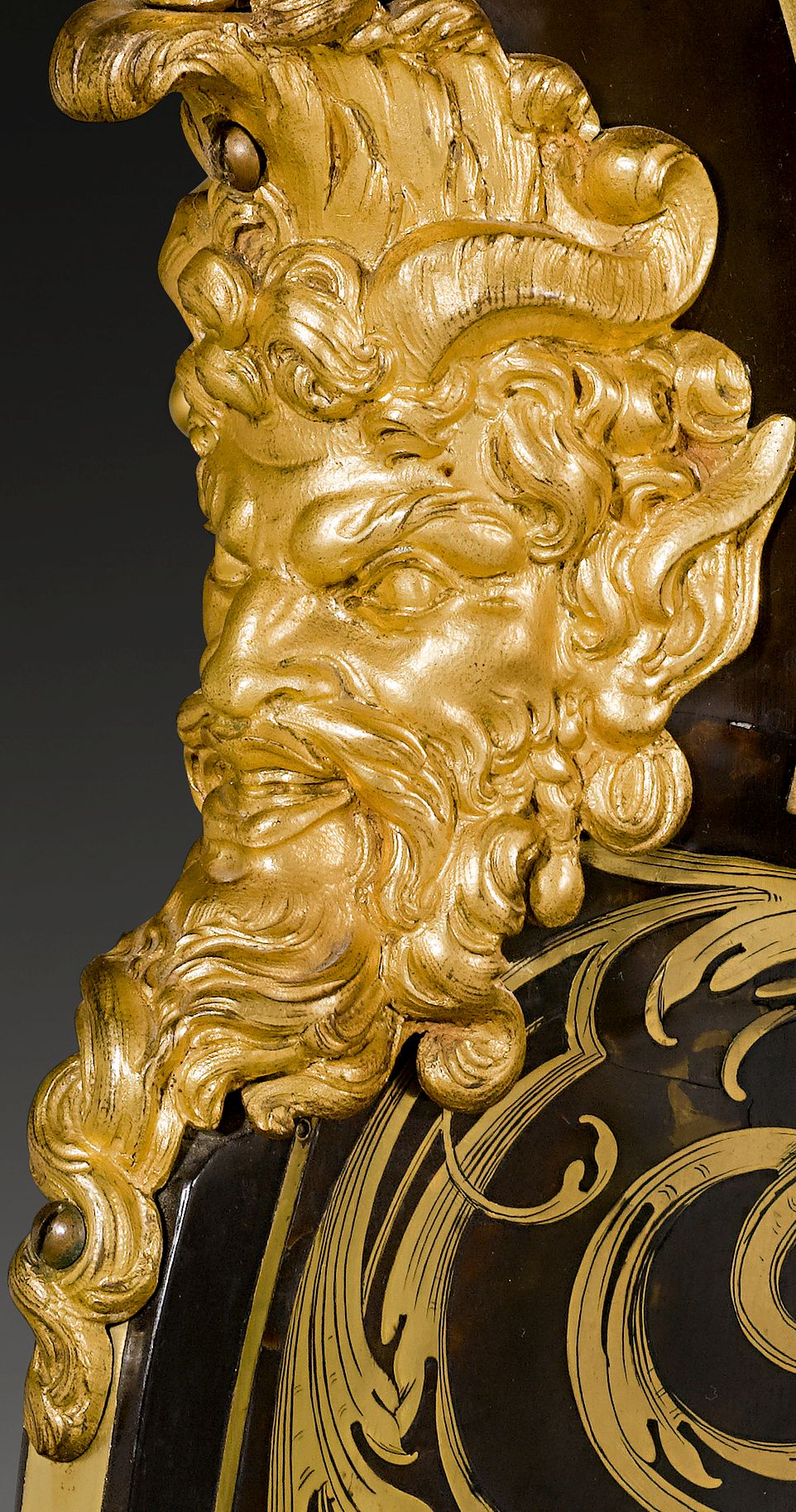 Example of Brass - André-Charles Boulle